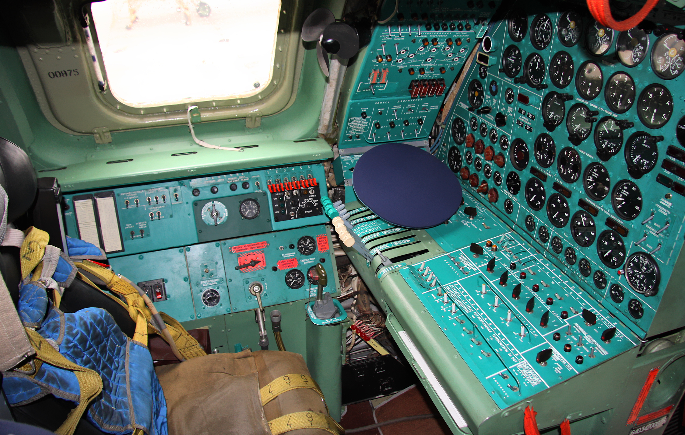 Cockpit of Tupolev Tu-95MS strategic bomber, engineer panel